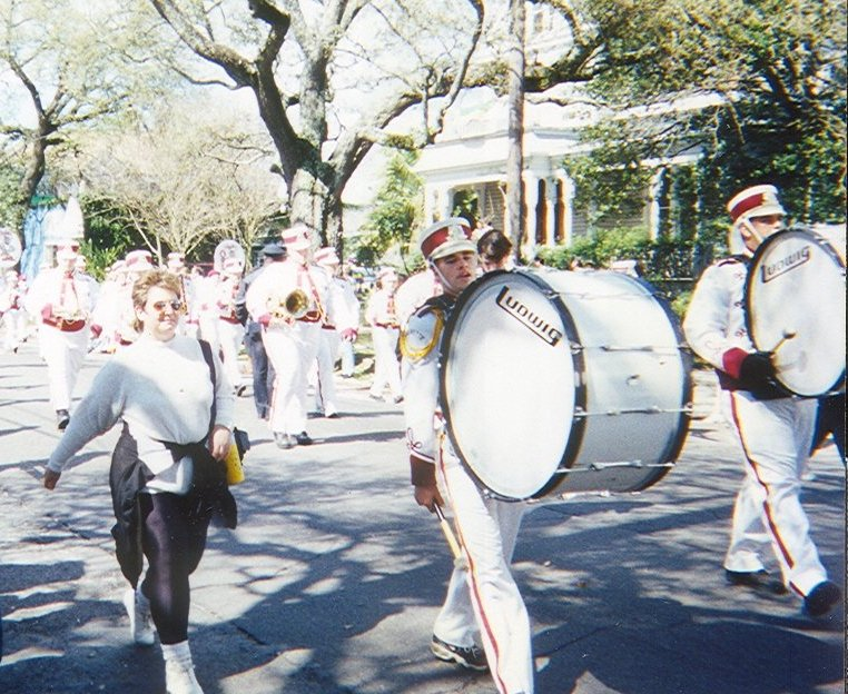 Bass drummers with school marching band, Toath Parade, New Orleans, 1998. Photo by Infrogmation. This file has an extracted image: File:BassDrumToath98-crop.png.